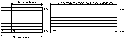 The added Streaming SIMD Extensions next to the existing MMX registers in the old FPU registers.